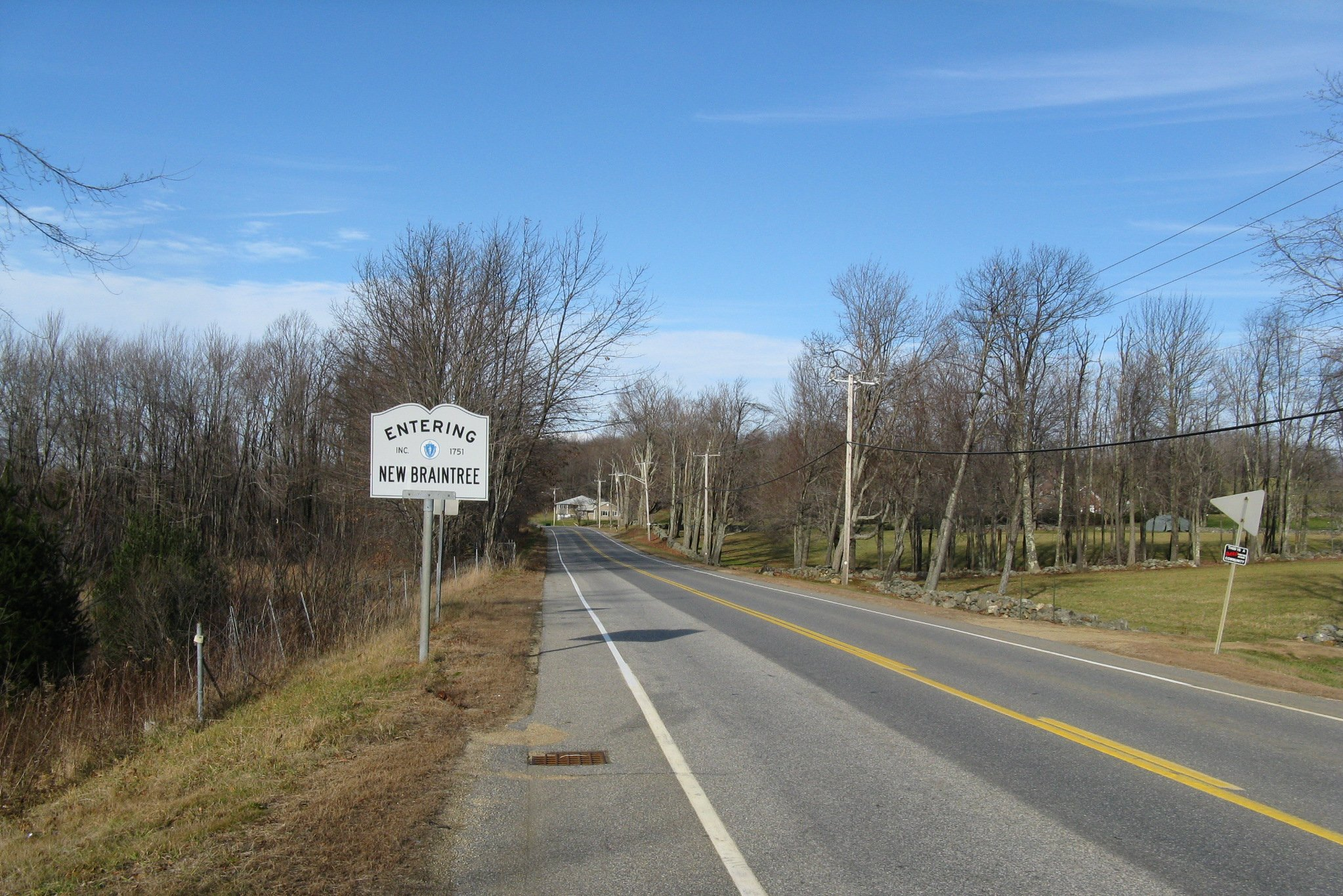 Massachusetts Route 67 northbound entering New Braintree Massachusetts